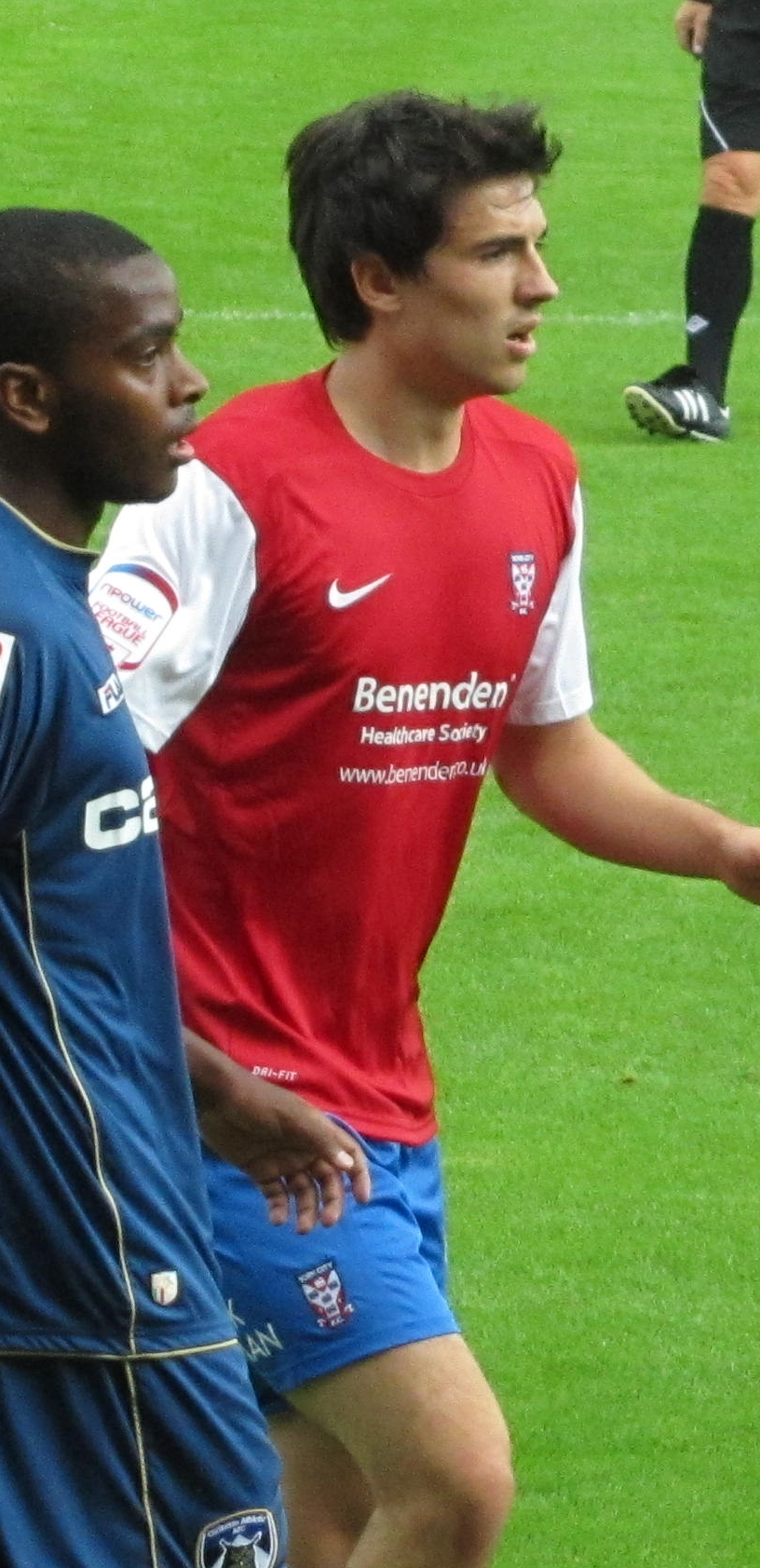 John McReady playing for York City against Oldham Athletic at Bootham Crescent, York on 21 July 2012